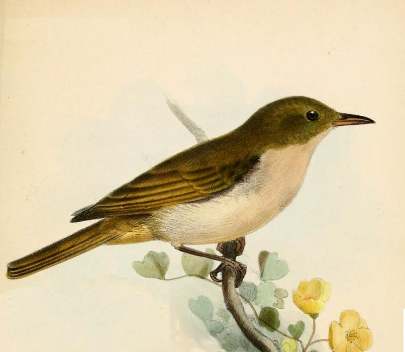 Scarlet-and-white Tanager female (above), Cinereous Conebill (below)